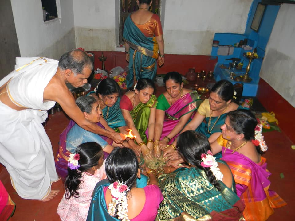 Bodan, a religious practice of chitpavan brahmins